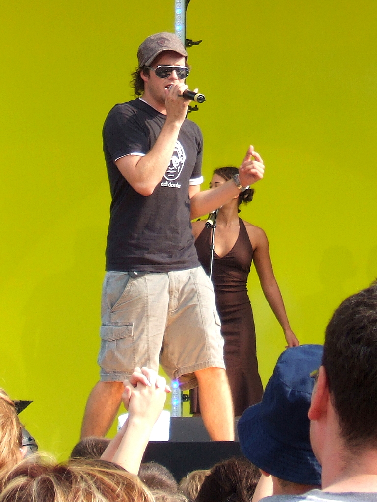 German singer "Ben", performing live in Bonn, September 16th, 2006